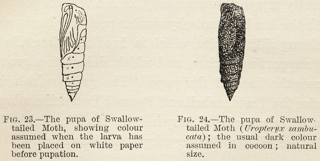 "Variable Protective Resemblance in Lepidopterous Pupae": two figures of Swallowtailed Moth pupae (Ourapteryx sambucaria) showing camouflage according to background on which larva was placed before pupation. From The Colours of Animals by Edward Bagnall Poulton, 1890